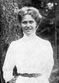 Elsa Brändström